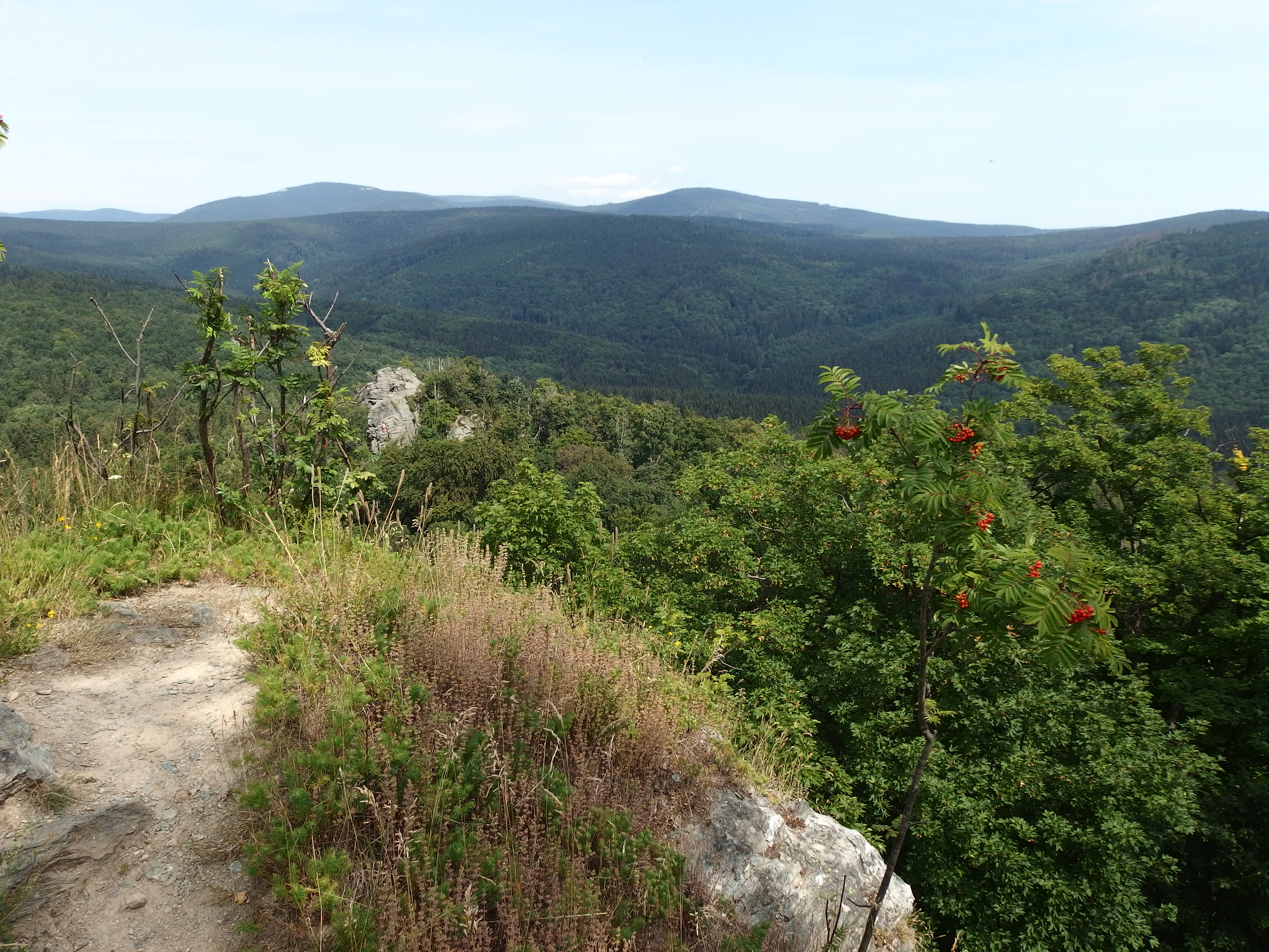 Oskava, Šumperk District, Czechia. Rabštejn nature reserve.